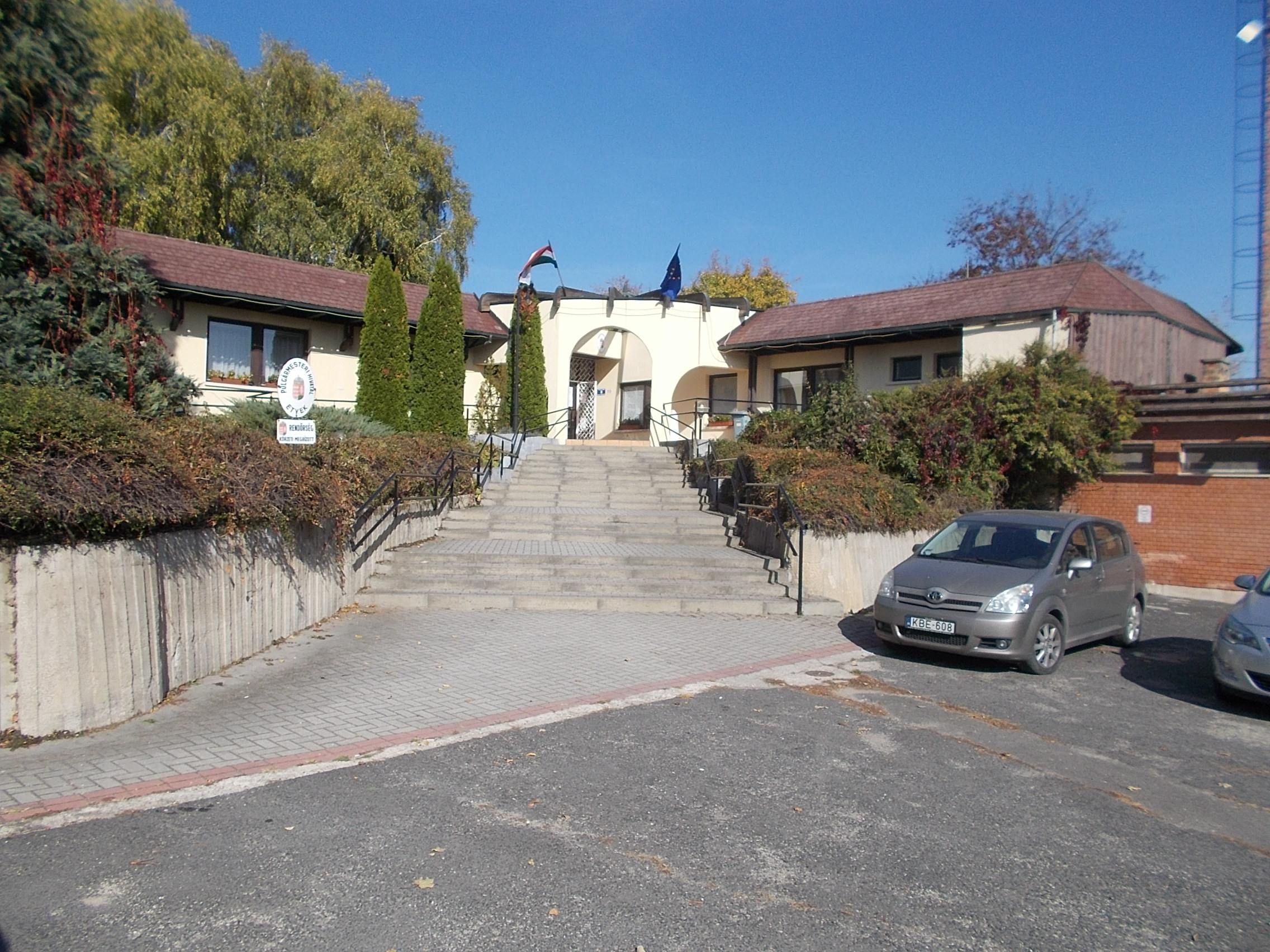 Village hall - Körpince köz, Etyek, Fejér County, Hungary